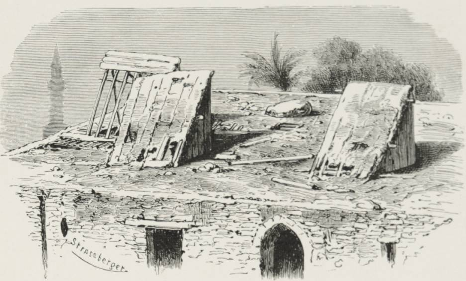 MALKAFS.Worn wooden constructs on the roof of a building.